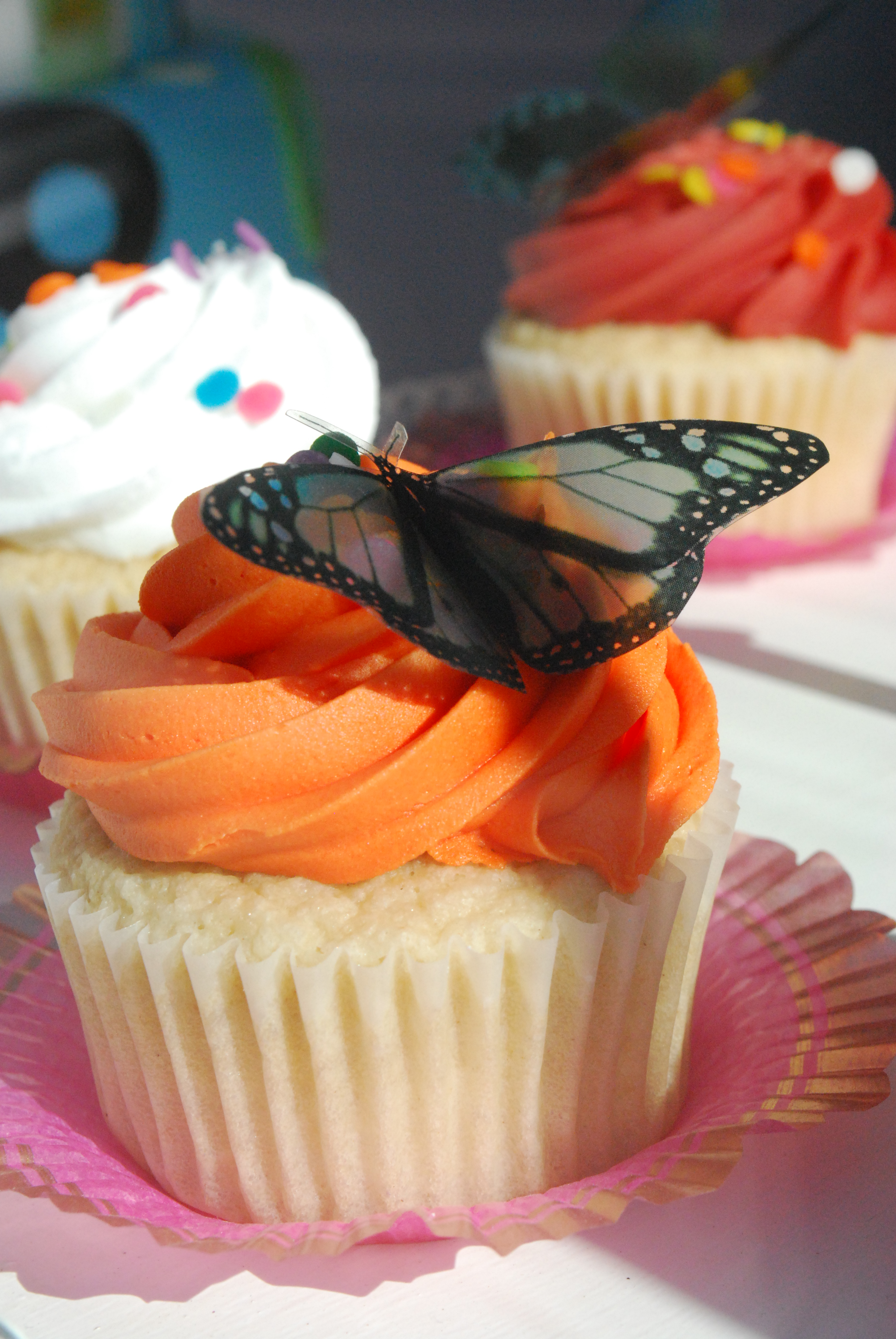 Cupcakes with Butterflies! Delicious-looking store window cupcakes at The Wedding Cakes Shoppe